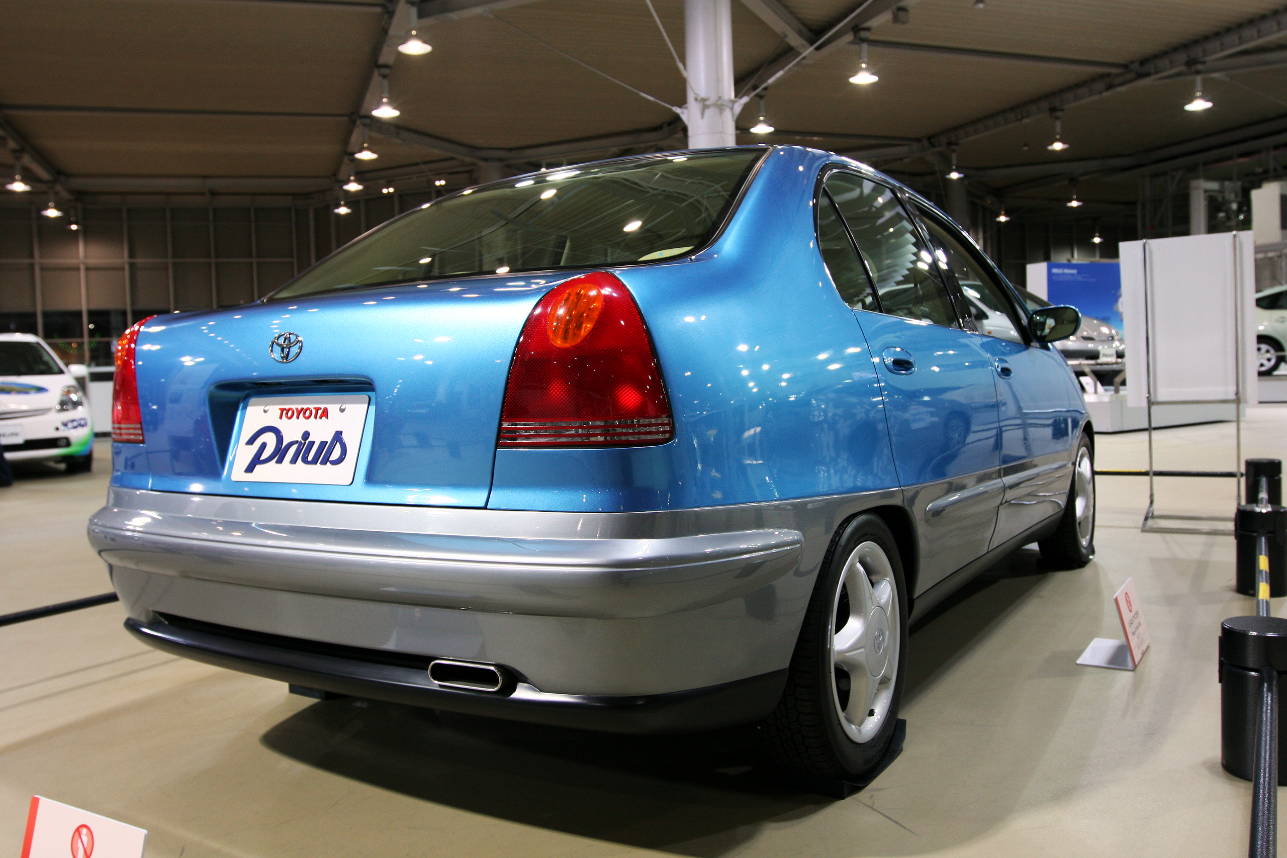 The 1996 Toyota Prius prototype